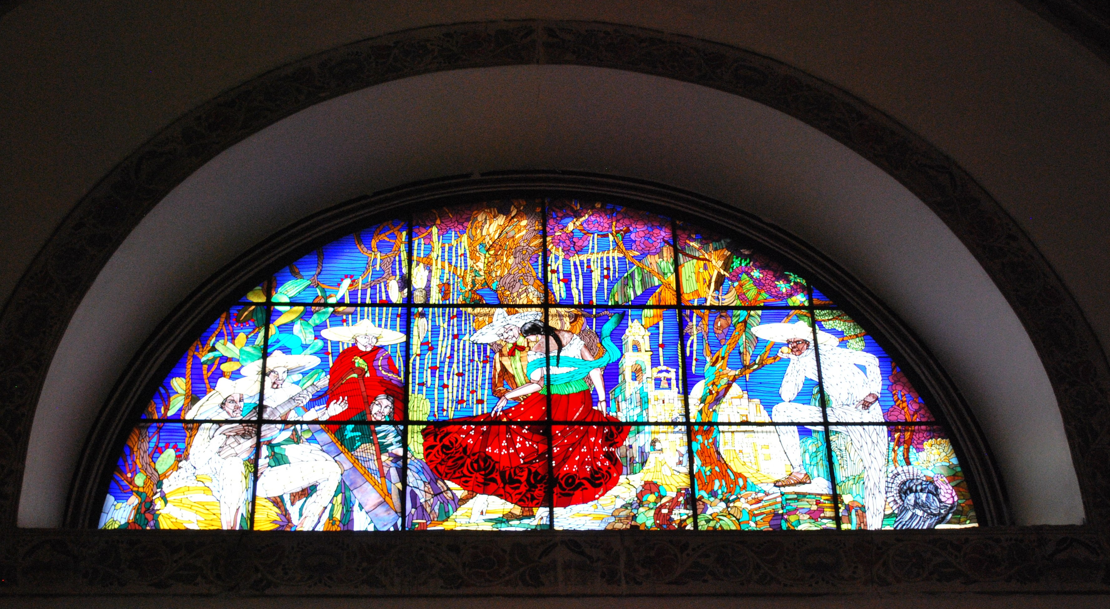 Stained glass window entitled "El Jarabe Tapatio" (The Jarabe Dance from Guadalajara) designed by Roberto Montenegro and Xavier Guerrero in the 1920's at the Museo de la Luz in the historic center of Mexico City